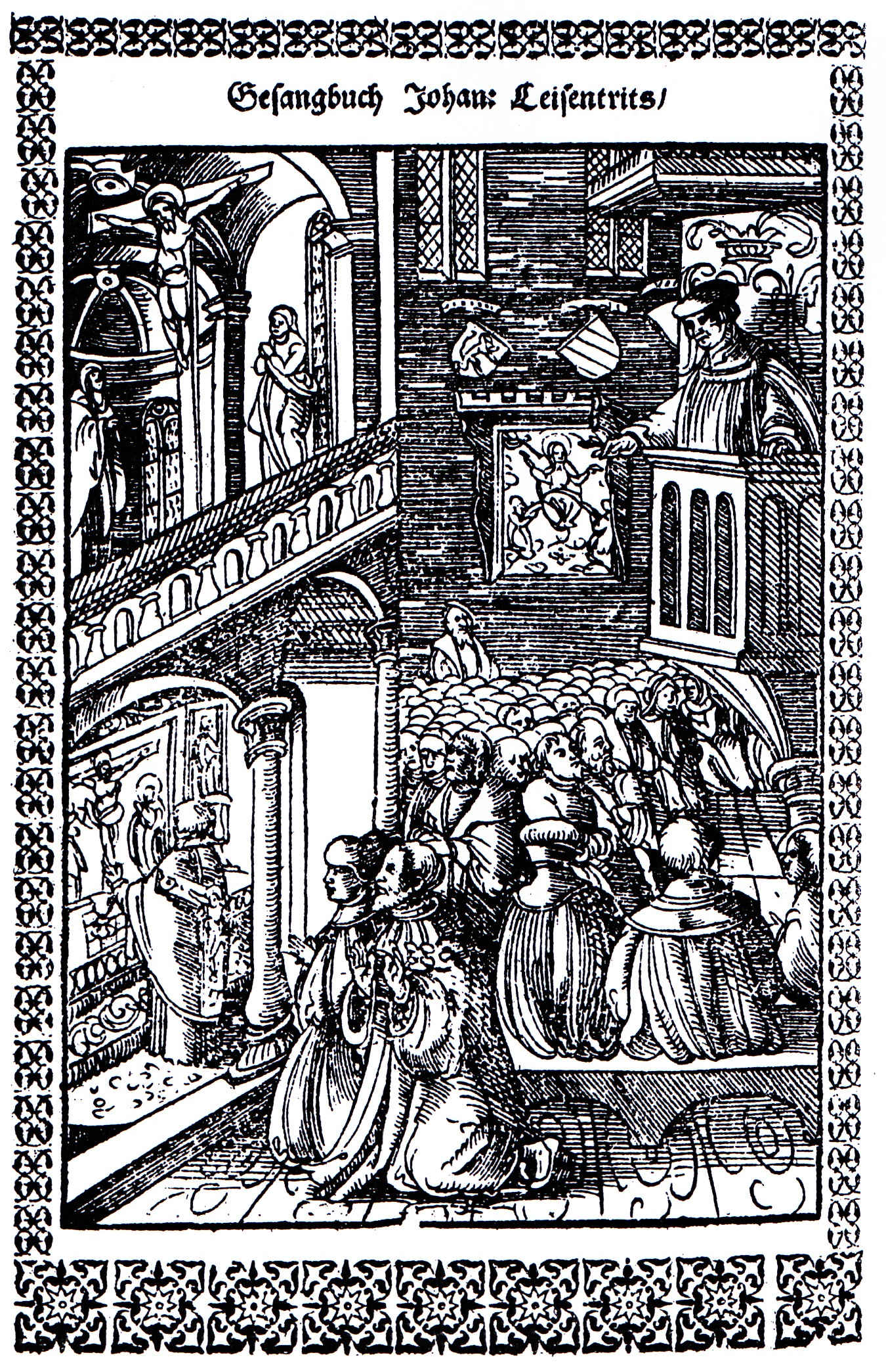 simultaneum collegiate church of St. Petri in Bautzen, Saxony, Germany. From the catholic hymn book by Johann Leisentrit, 1567. Showing the Catholic mass in the foreground and a Lutheran service in the background.